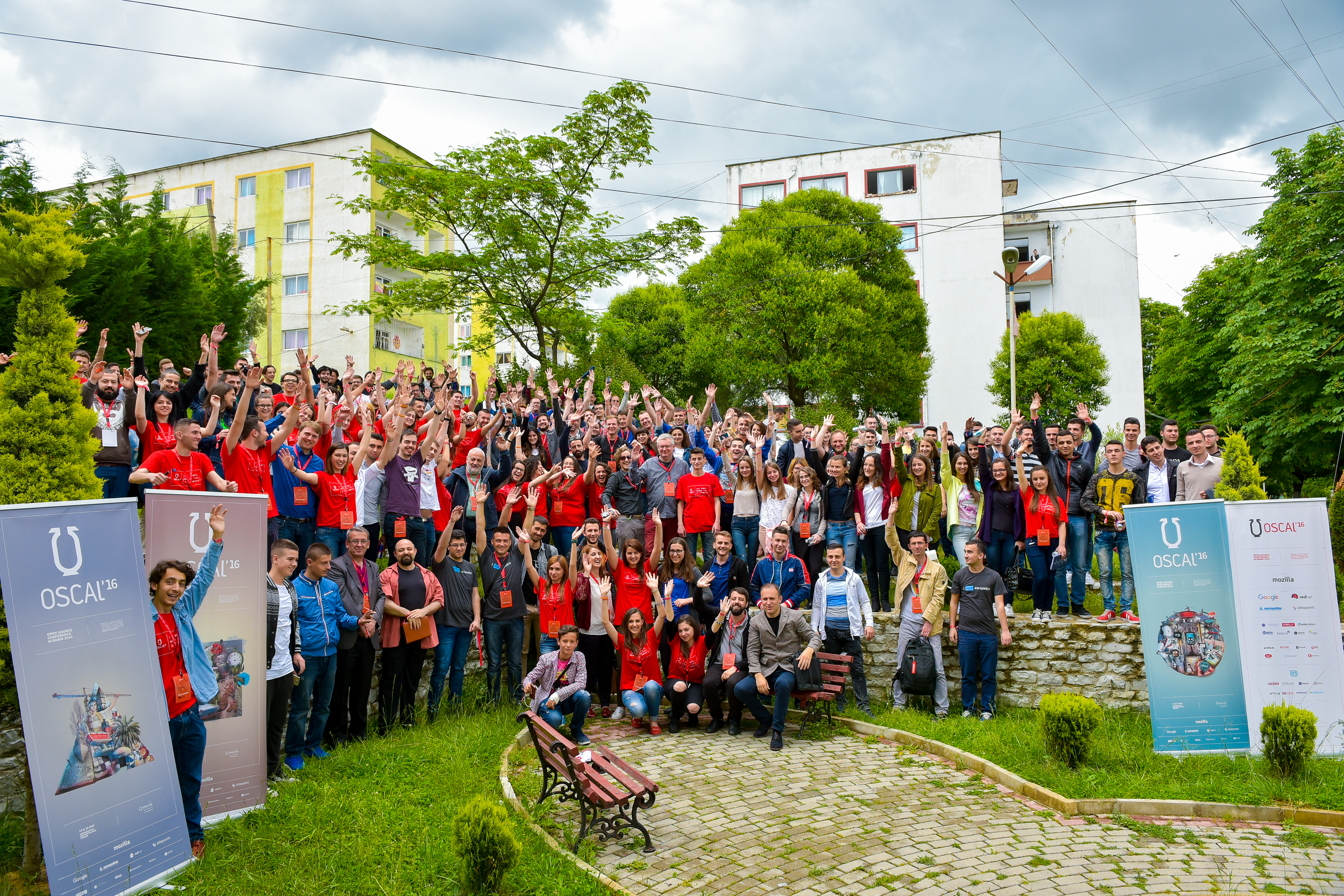 Moments of OSCAL 2016, the third edition of the international conference in Albania about free open source technologies.